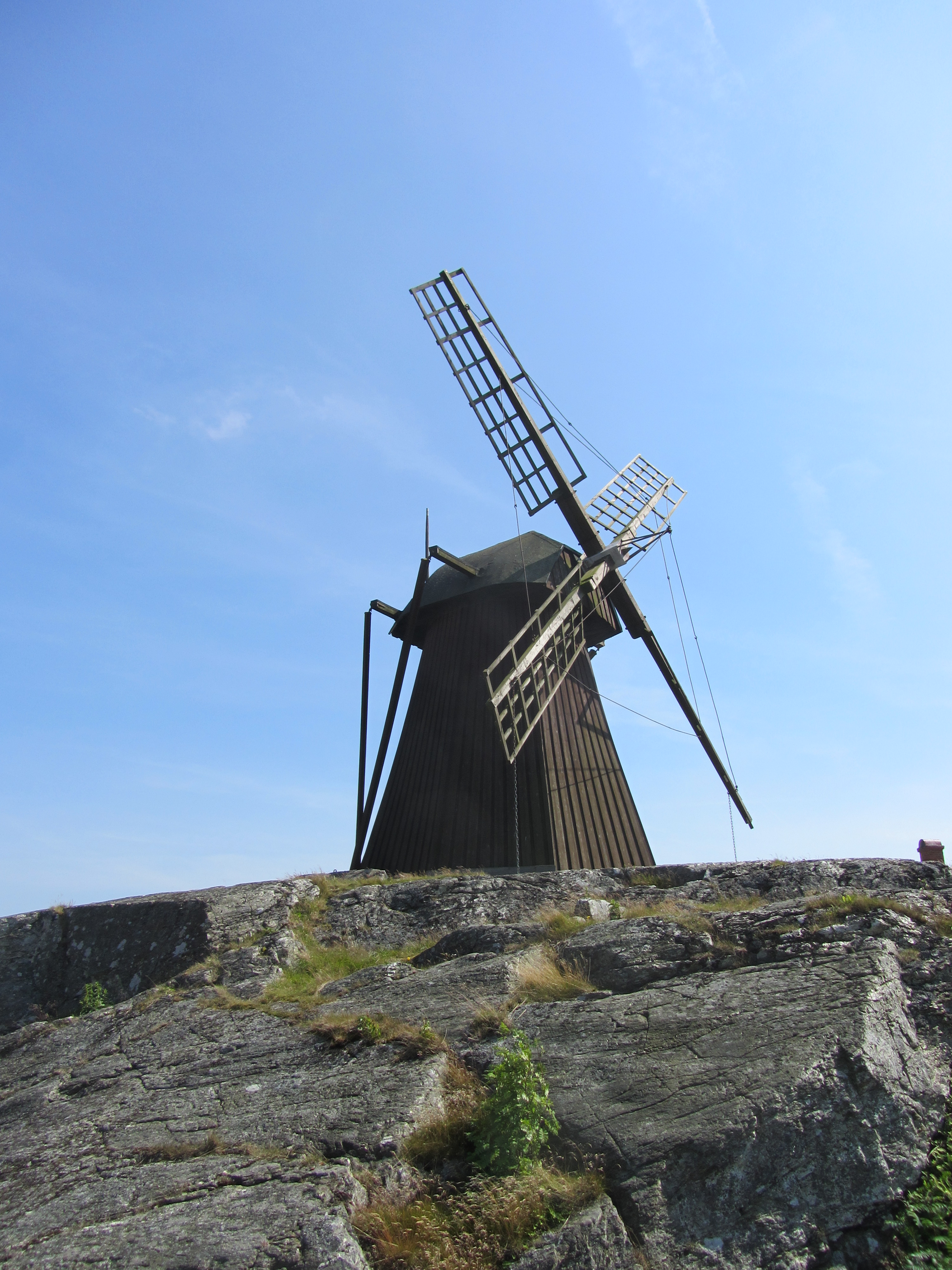 Windmill at Fiskebäckskil (Sweden) This document was produced using the Canon PowerShot SX230 HS lent by Wikimedia France.